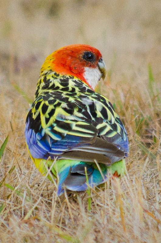 A rear view of a female Eastern Rosella (Platycercus eximius) exhibiting its distinctive back plumage.